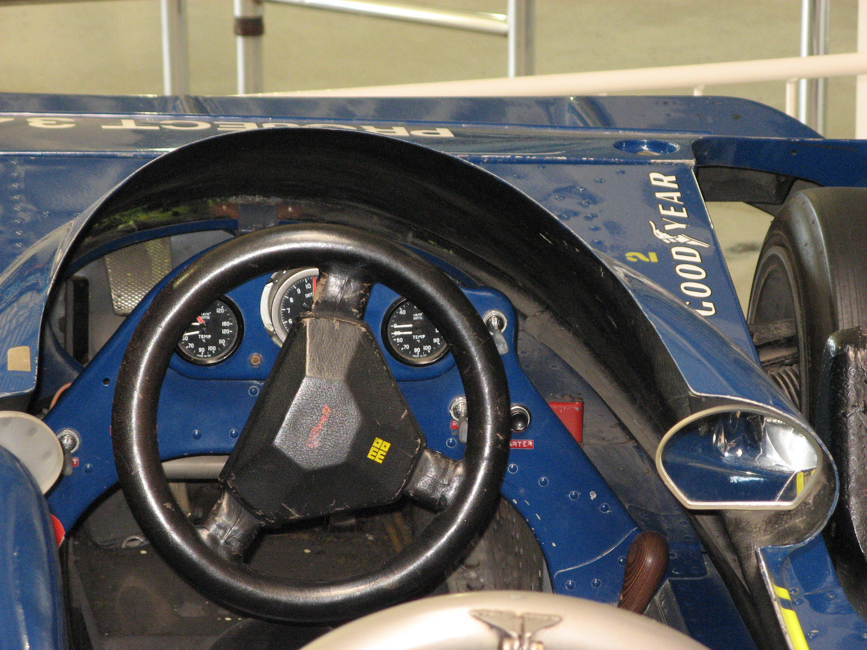 Formula 1, Tyrrell P34, Detail: driver's cockpit, Exhibition: Technik-Museum Sinsheim, Germany